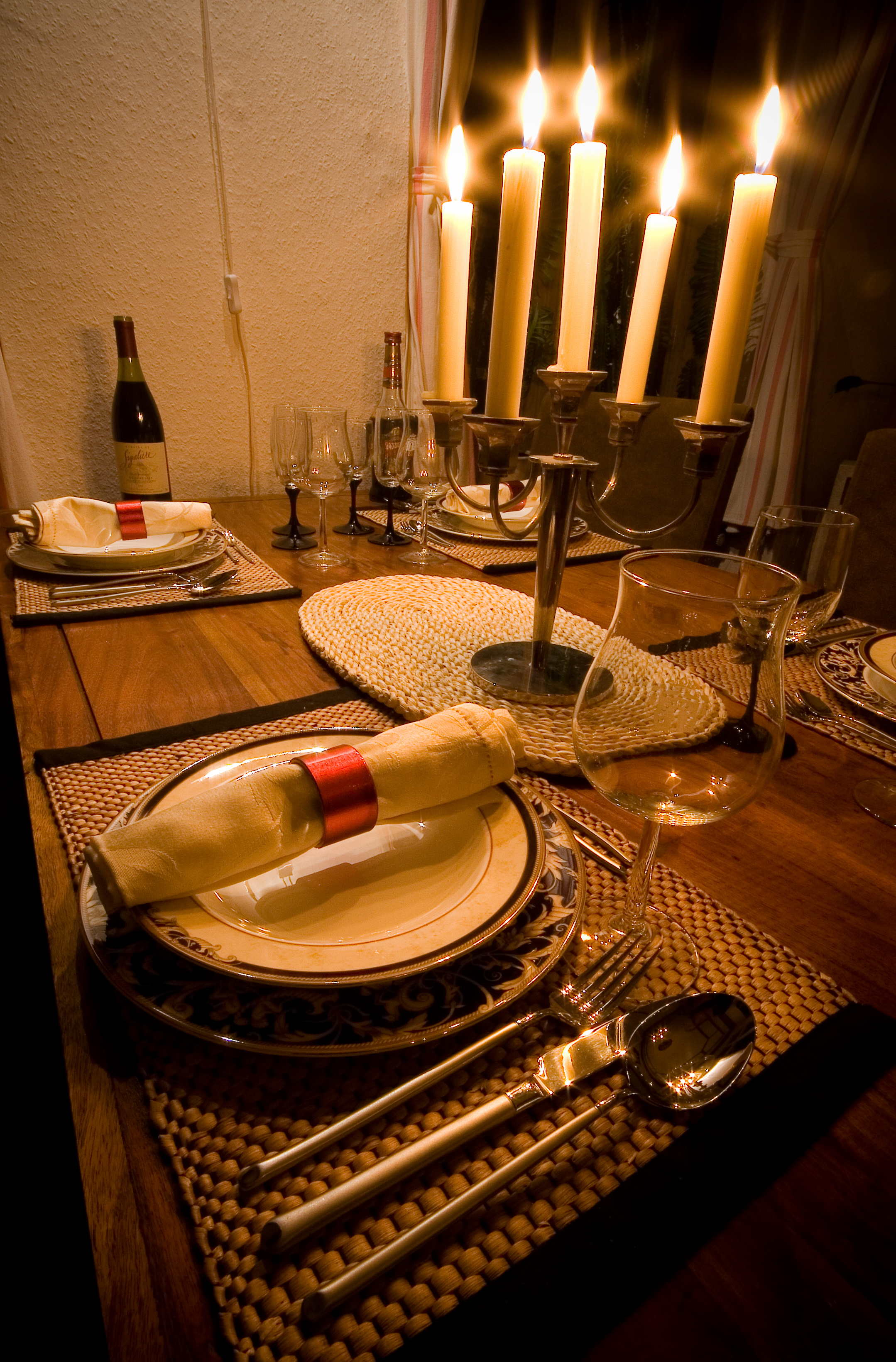 candle light dinner